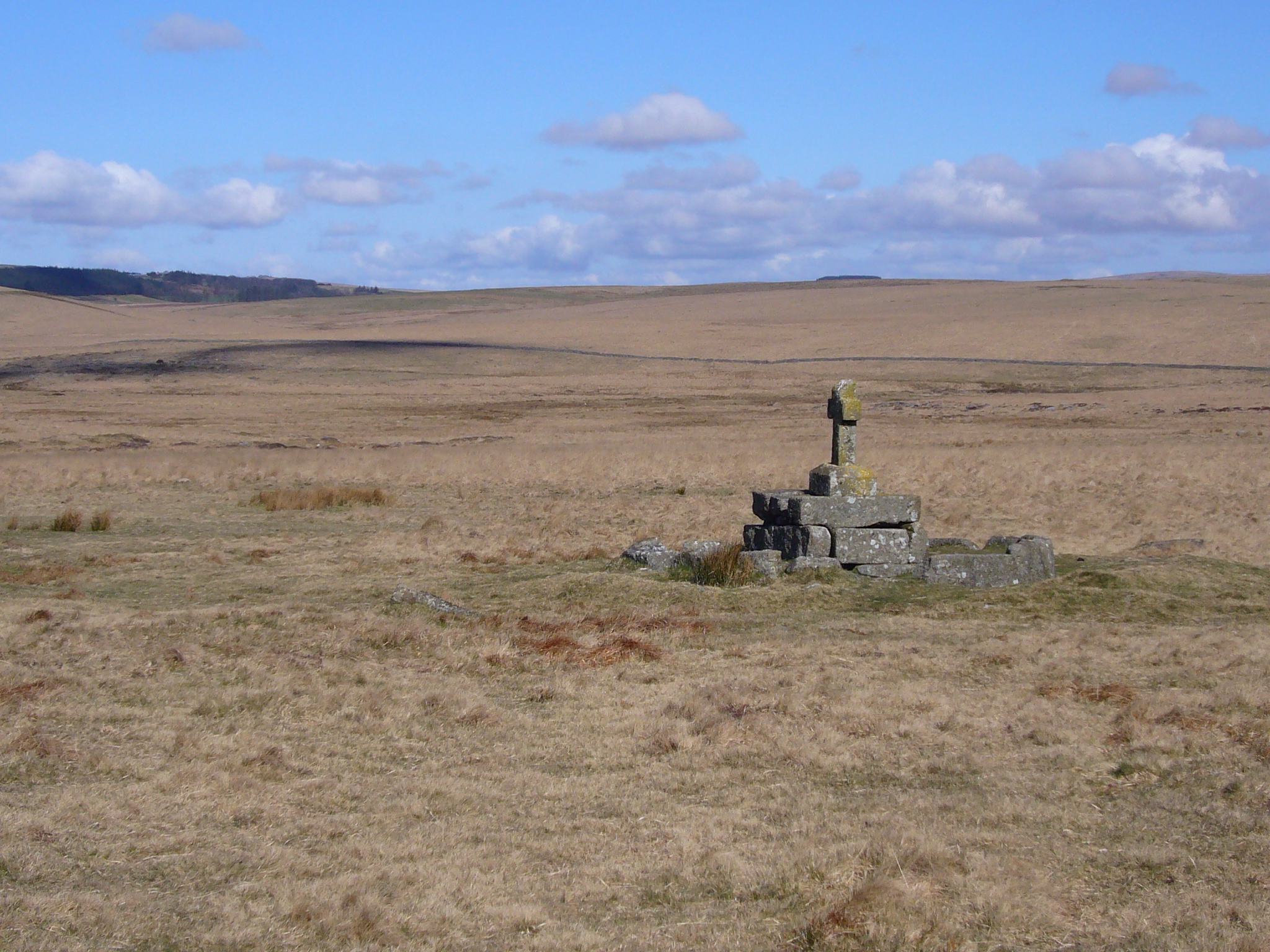 Looking East & showing the setting of Childe's Tomb located on the south-east edge of Foxtor Mire on Dartmoor at grid reference SX625704. Legend has it that the cross was erected over the kistvaen (burial chamber) of Childe the Hunter.